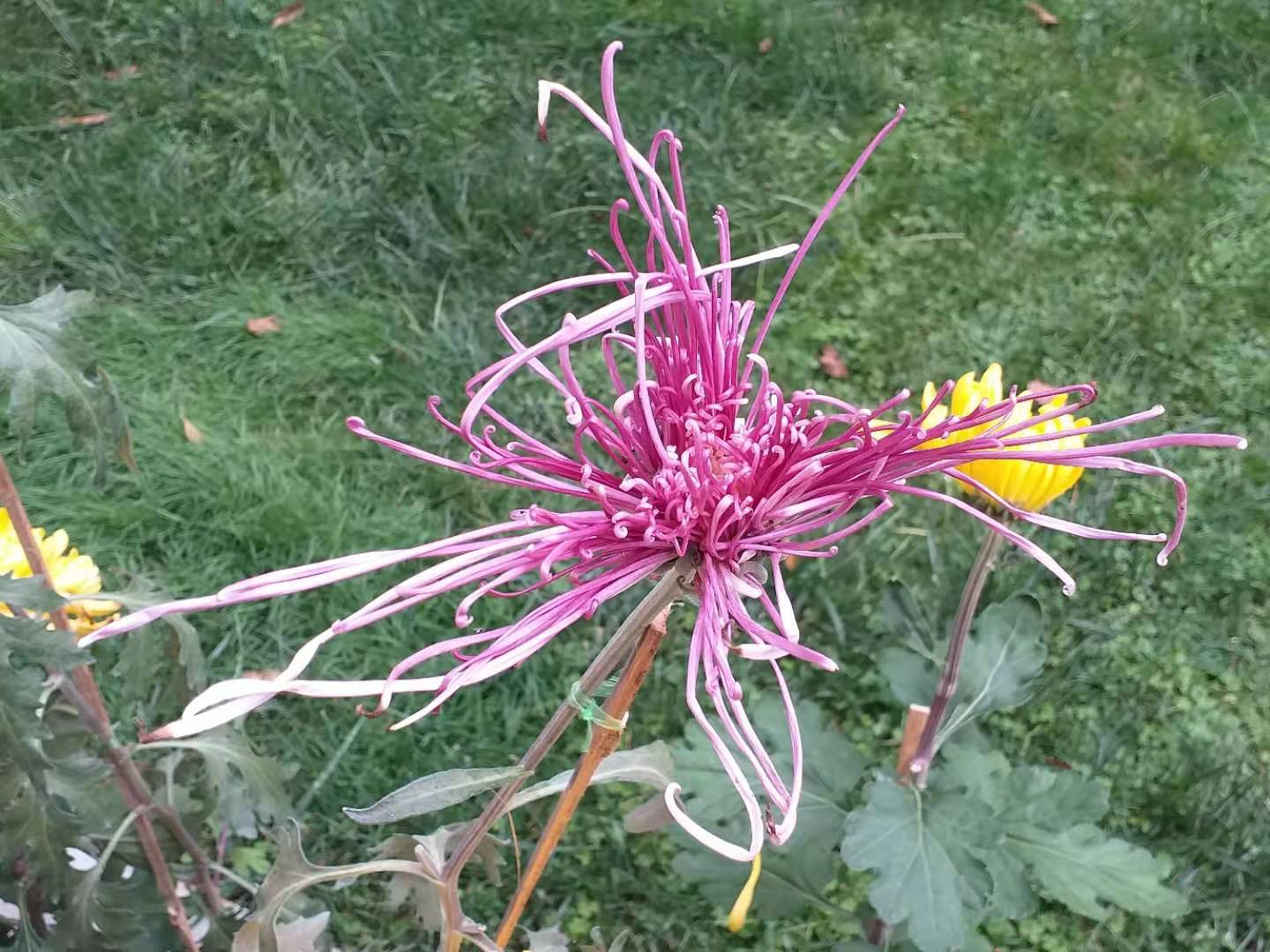 Chrysanthemum × morifolium. In Kunming of Yunnan province, China.